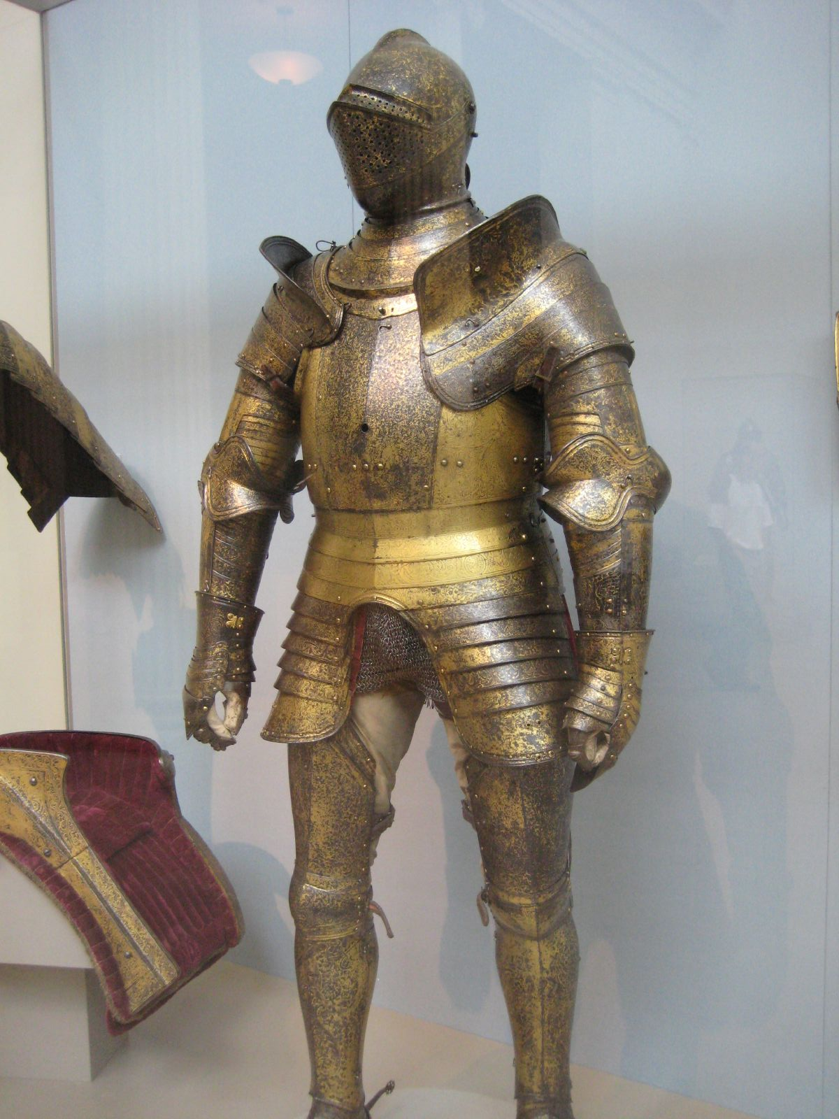 Commissioned by Henry VIII, Swiss artist Hans Holbein the Younger (1497–1543) and the Royal Workshops at Greenwich produced this suit of richly-gilded armor for the King of England. Aside from another made for Henry VIII, this is the only armour to feature a ventral plate, which was worn strapped to the chest under the breastplate to lessen the weight on the shoulders. The photograph of this armour was taken at the Metropolitan Museum of Art in New York. ( Arms and Armor: Armor for Field and Tournament, Accession number: 19.131.1, .2)